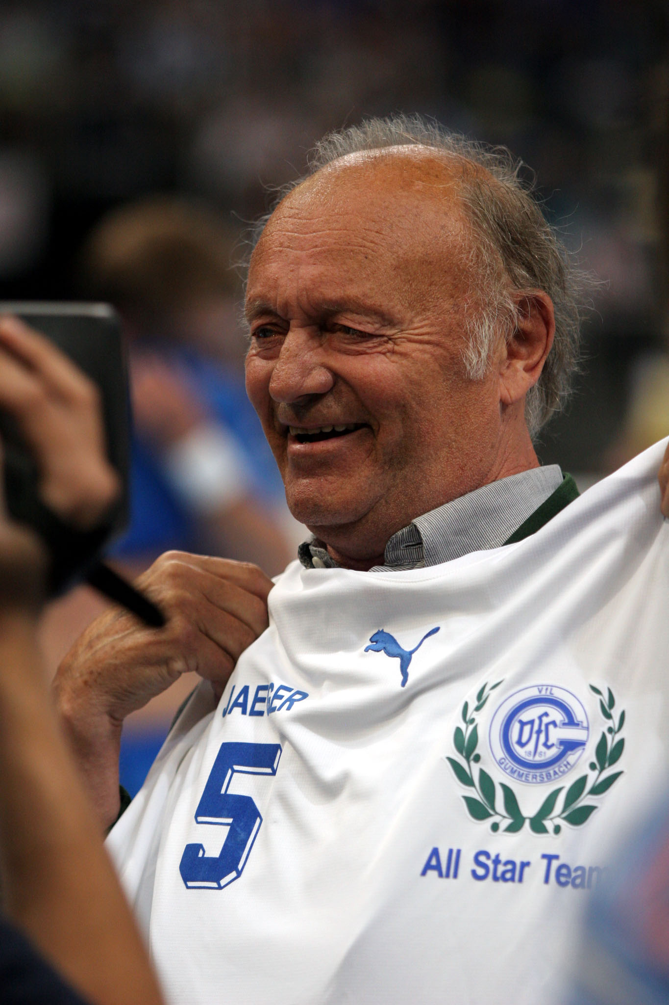 Rolf Jaeger, former handball player and coach. Prior the final EHF Cup game on June 1st 2009, VfL Gummersbach vers. RK Velenje in Cologne´s Lanxess arena.